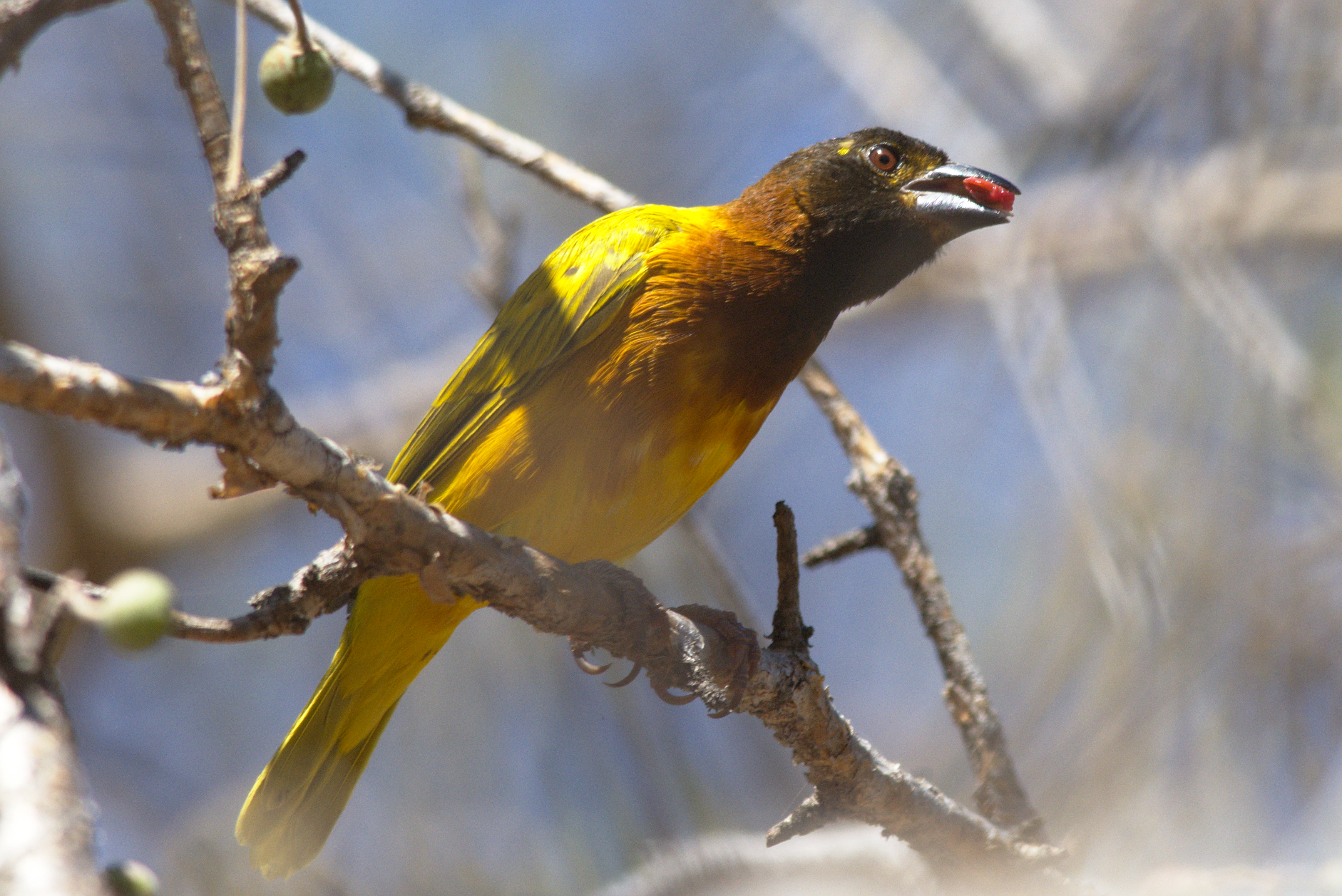 Juba Weaver, Dawa River, Ethiopia